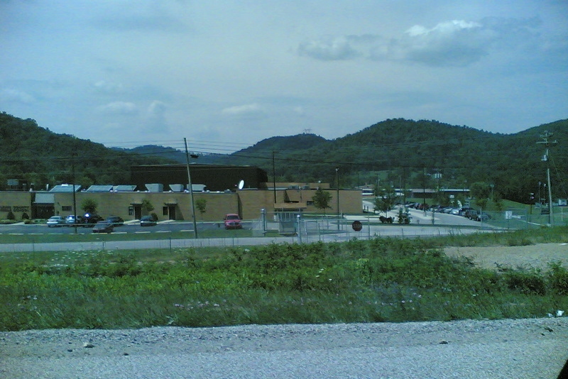 Lewis County (KY) School Complex (Vanceburg, Lewis County, Kentucky, United States)